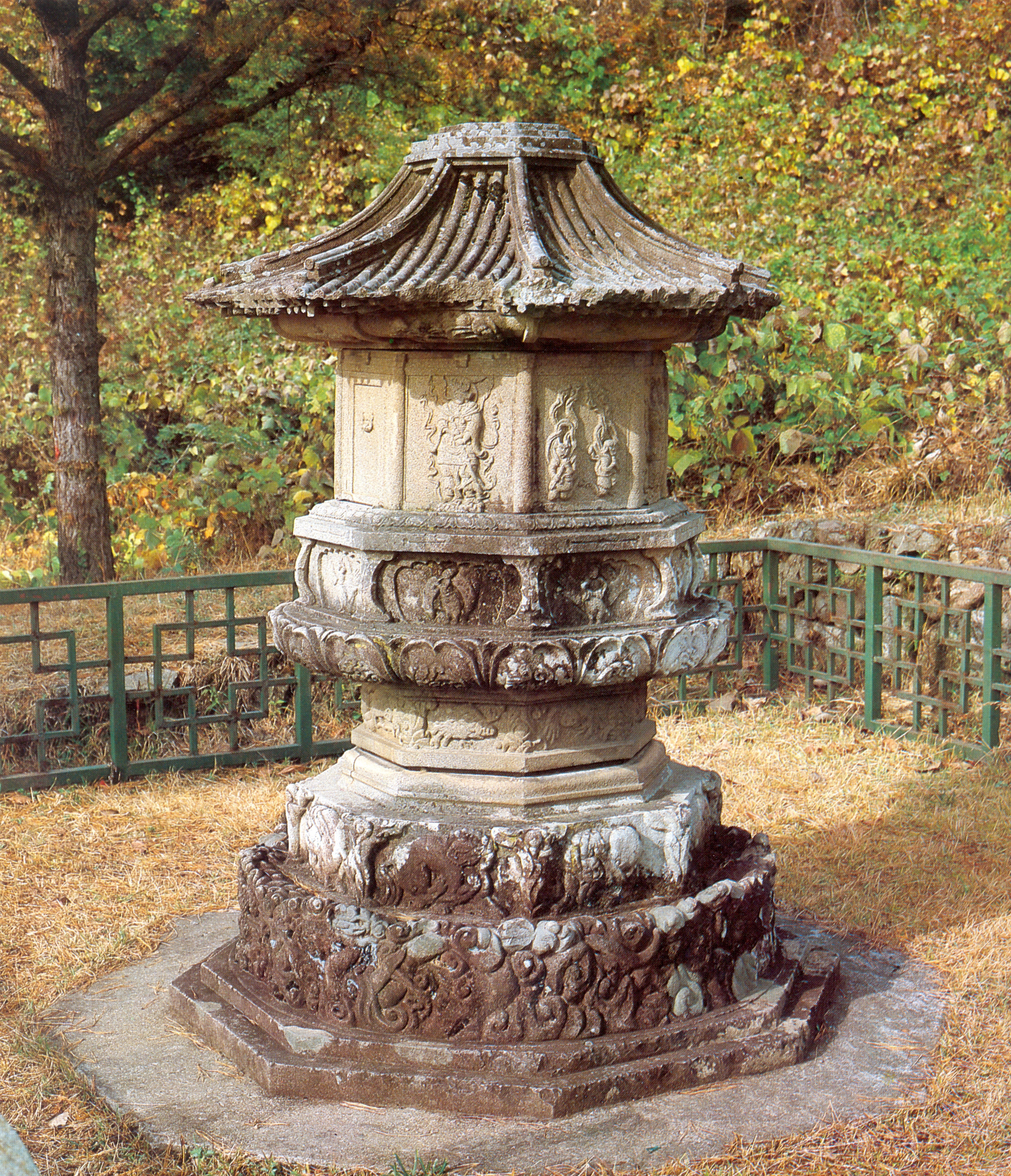 Stupa for master Cheolgam at Ssangbongsa temple in Hwasun, Korea